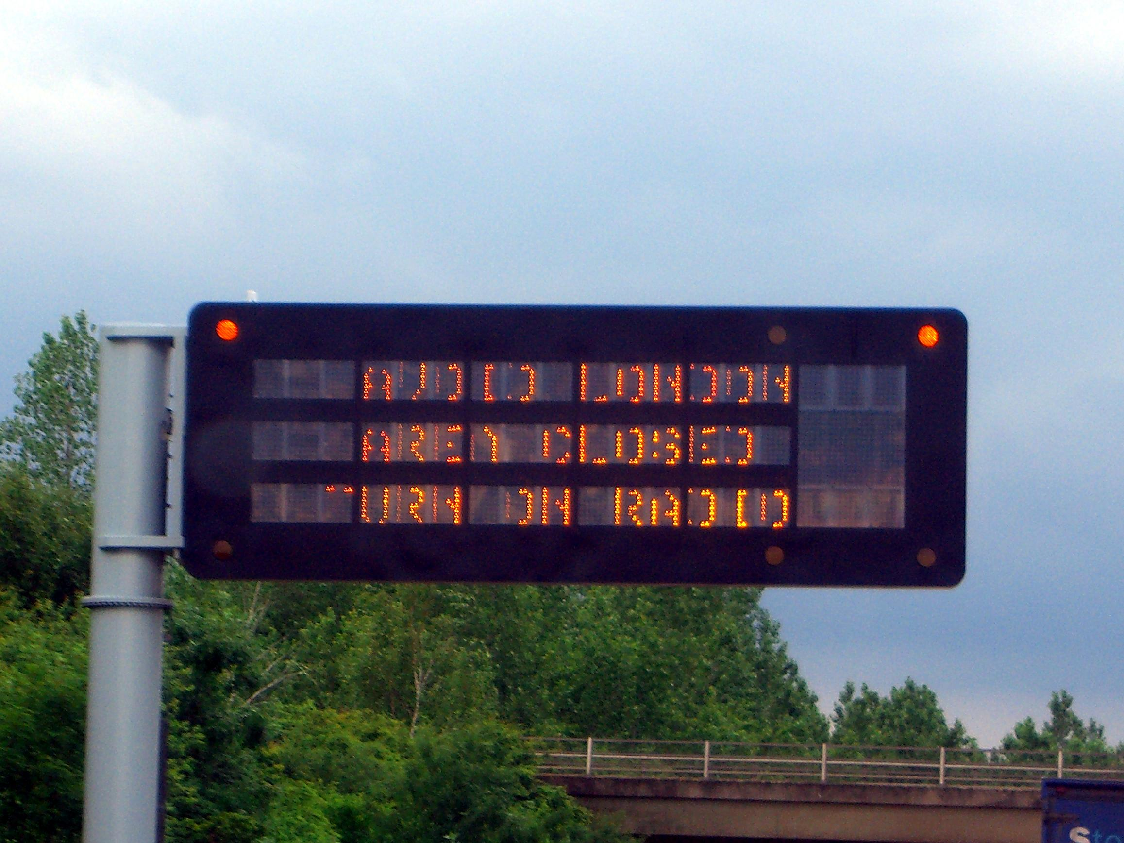 Sign reads: "AVOID LONDON | AREA CLOSED | TURN ON RADIO"